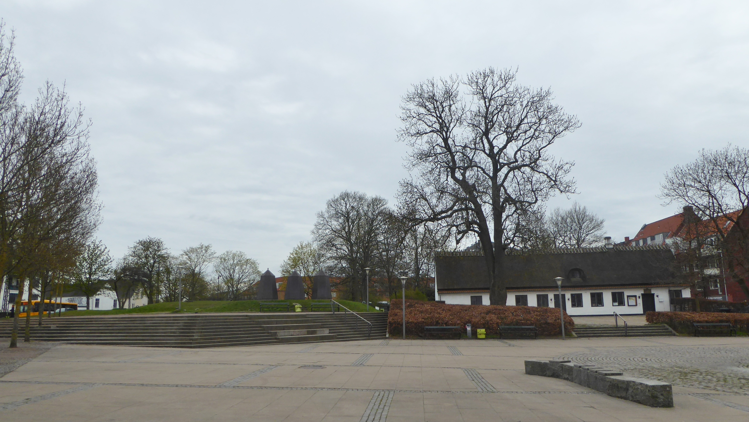 The square Brønshøj Torv in Brønshøj in Copenhagen.